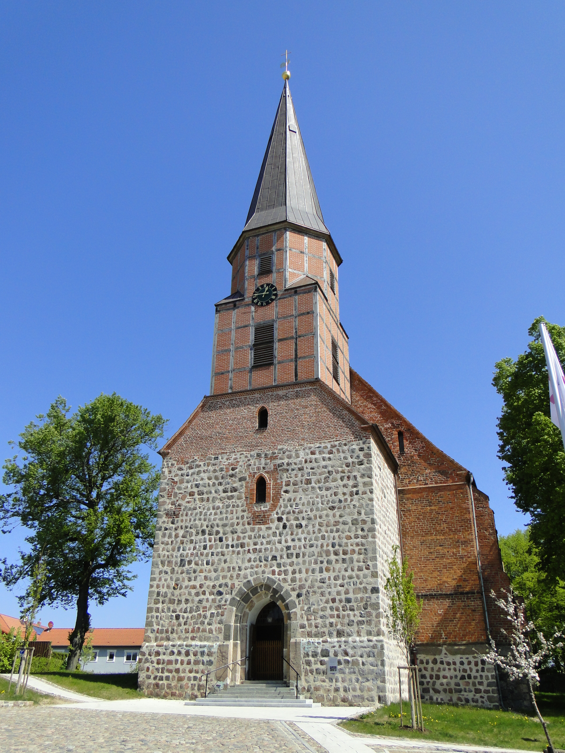 Church St. Petri in Woldegk, district Mecklenburg-Strelitz, Mecklenburg-Vorpommern, Germany